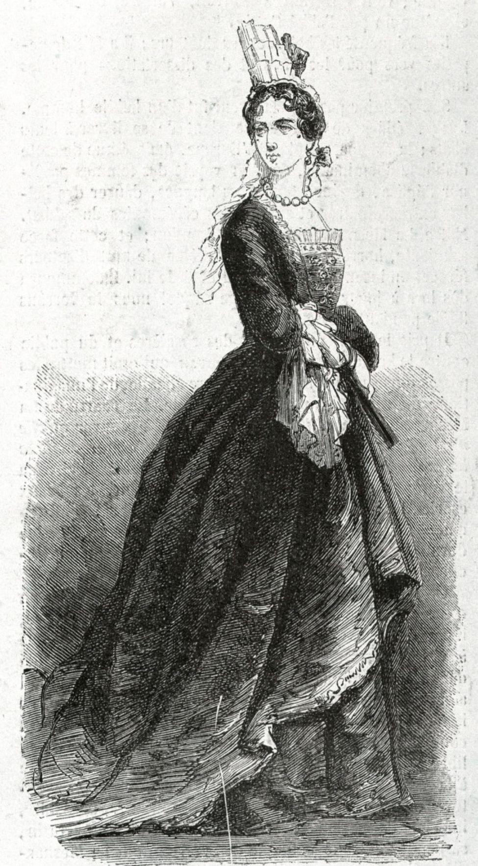 Abbé de Choisy as a woman. Illustration published in the magazine "The Museum of Families", in 1855.